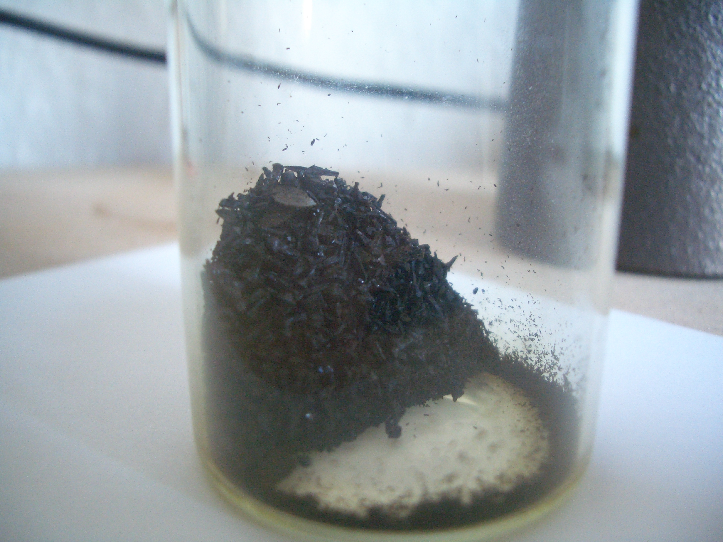 Bis(benzene)chromium (dibenzenechromium) in a vial under nitrogen. Prepared according to the method of Fischer and Hafner and purified by sublimation in high vacuum.